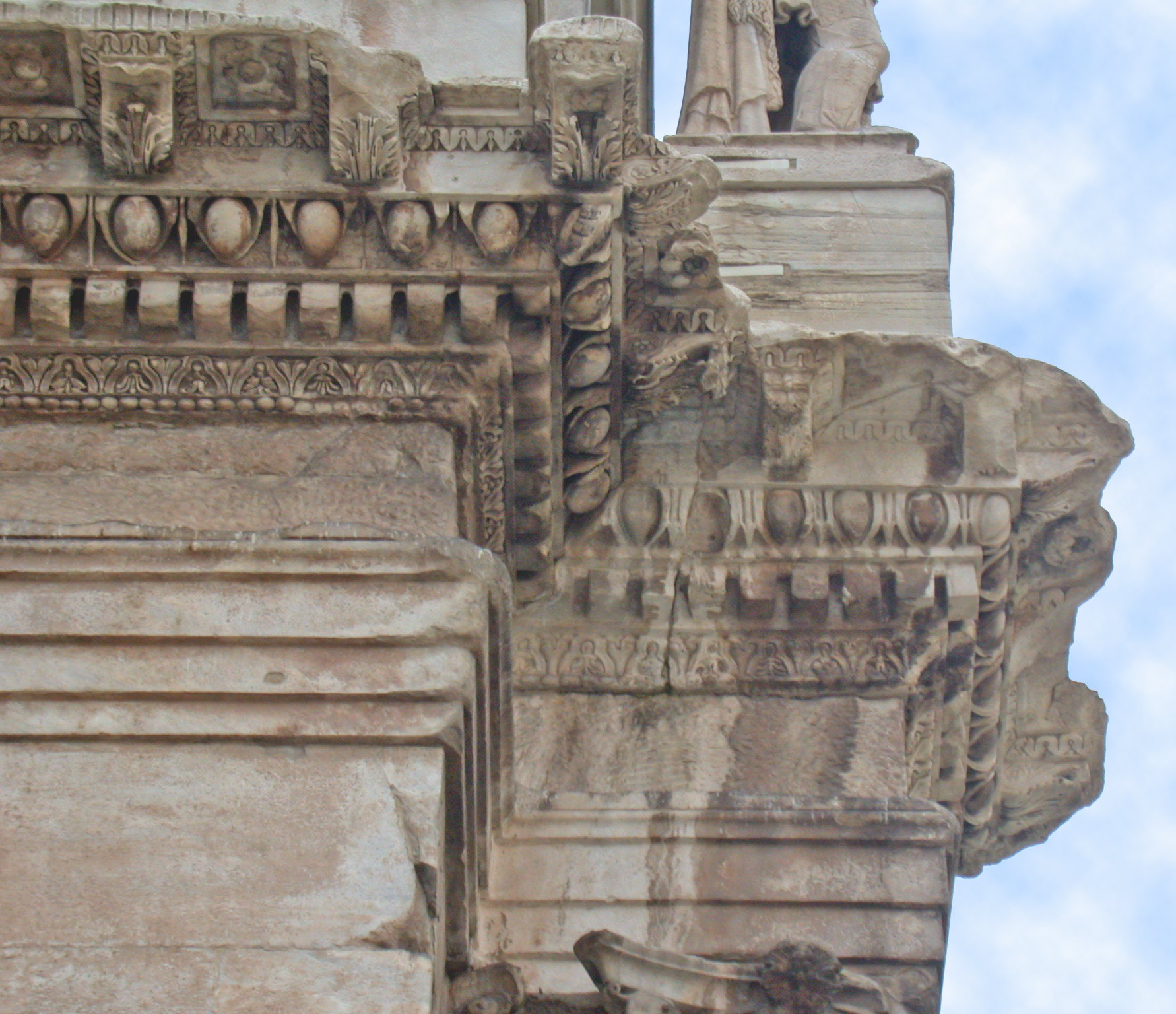 Rome, Arch of Constantine, main entablature NW corner. Personal photo (november 2005) by MM in it.wiki